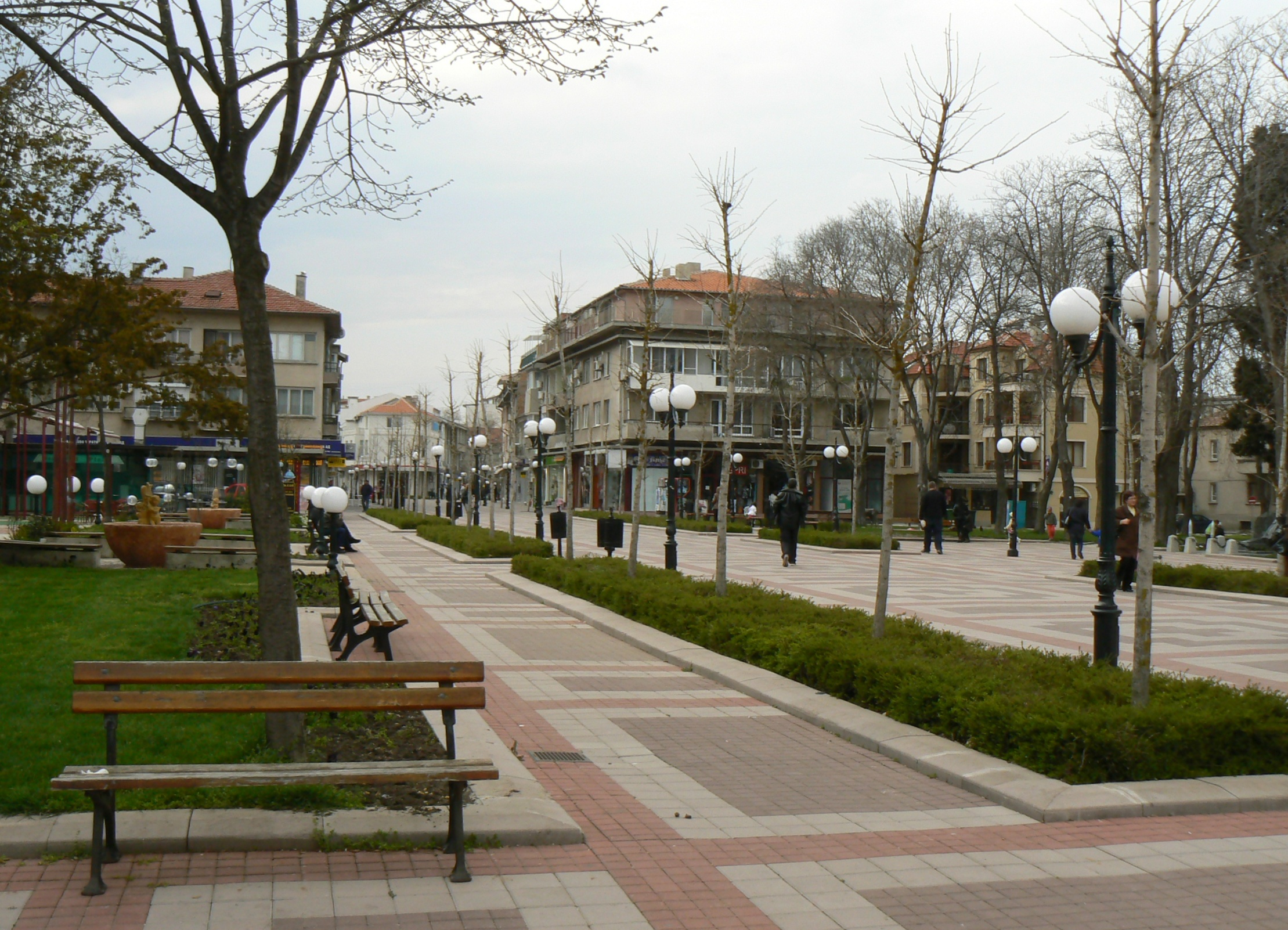 The centre of the town of Pomorie in Bulgaria (year 2010)